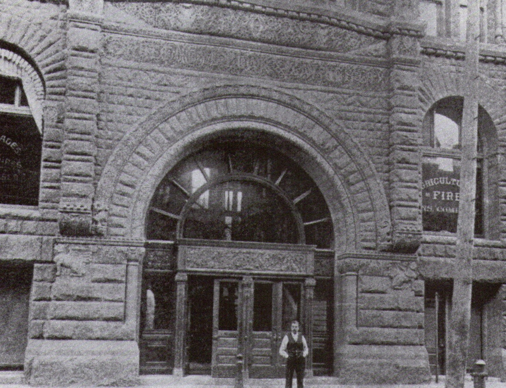 E.J. Lennox, Toronto architect, standing in front of one of his buildings, the Freehold Loan Building on Adelaide Street East. Toronto, Ontario, Canada.